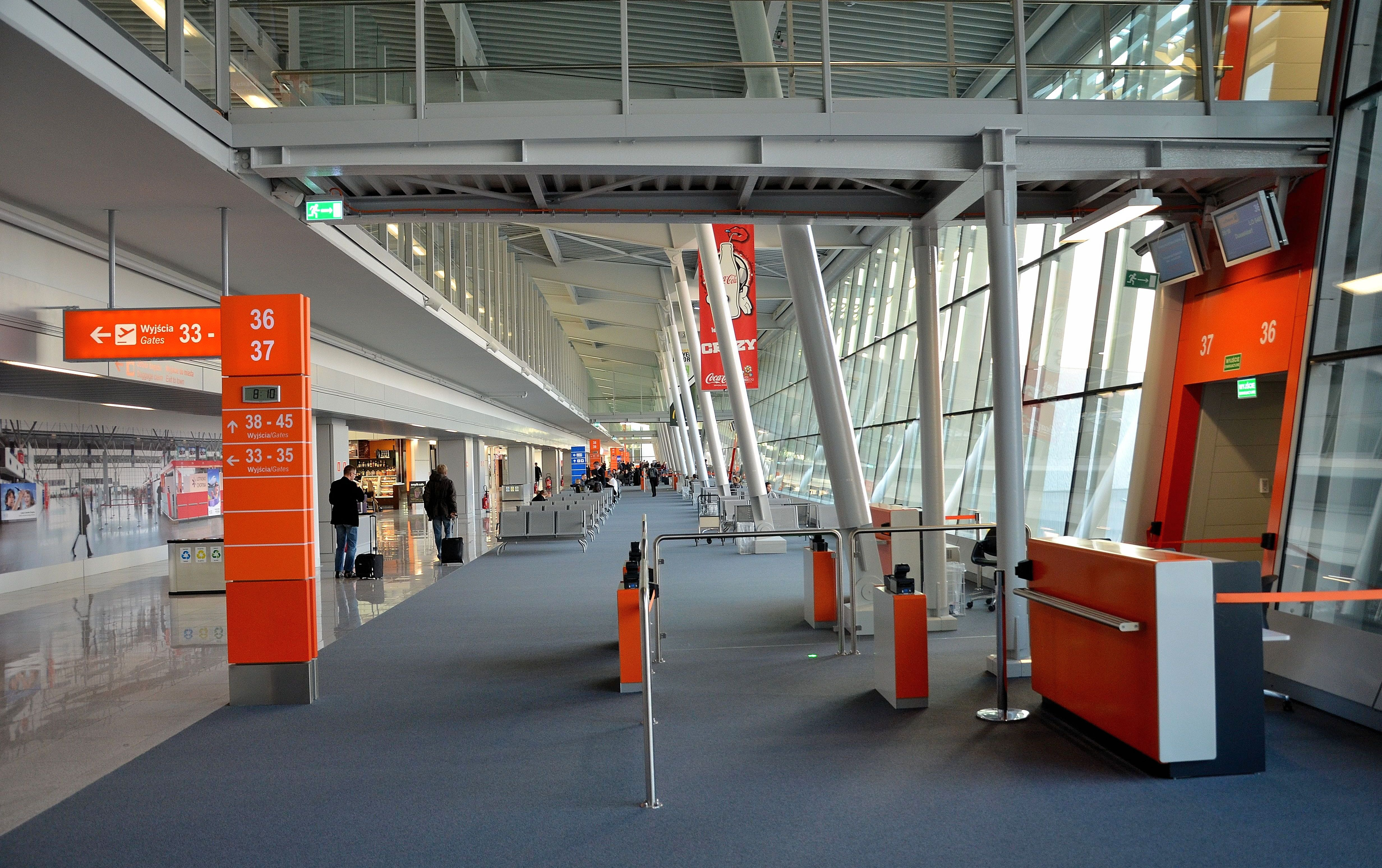 Departures hall in Teminal A at Chopin Airport in Warsaw